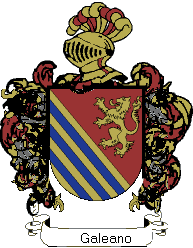 Family History Heraldry Galeano